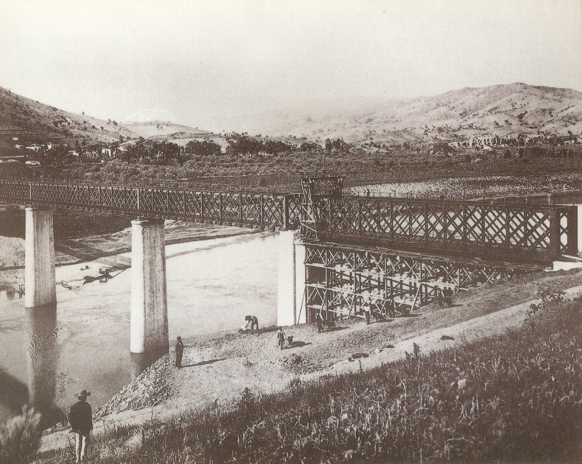 Construction of the Pocinho road-rail Bridge, in Portugal. The works lasted from 1903 to 1909. This photograph was first published on the book "O Douro", of 1911.